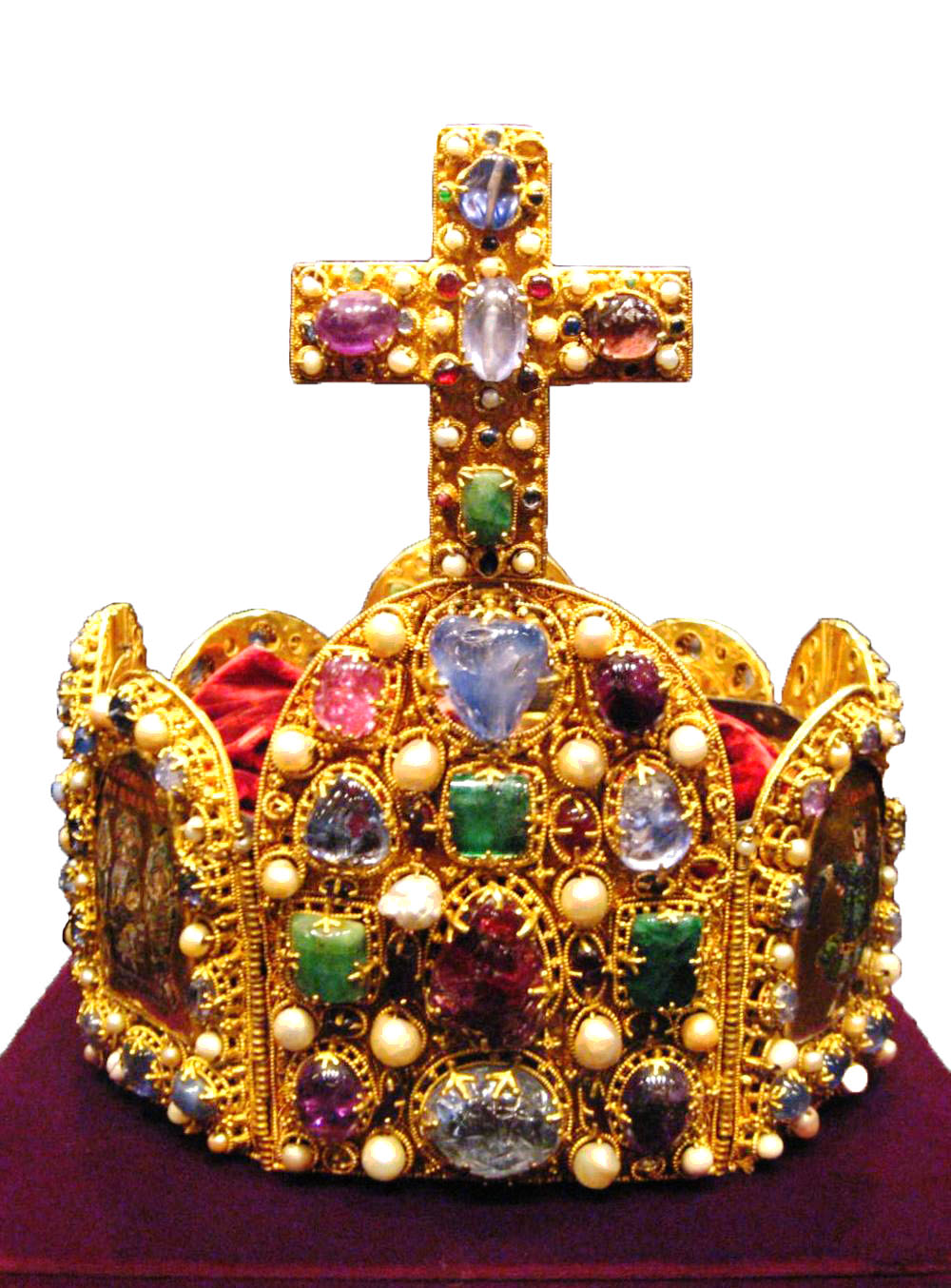 The Imperial Crown Western Germany 2nd half of the 10th century The cross is an addition from the early 11th century; the arch dates from the reign of Emperor Conrad II (ruled 1024-1039); the red velvet cap is from the 18th century. Gold, cloisonné enamel, precious stones, pearls Brow plate: H 14.9 cm, W 11.2 cm; cross: H 9.9 cm SK Inv. No. XIII 1